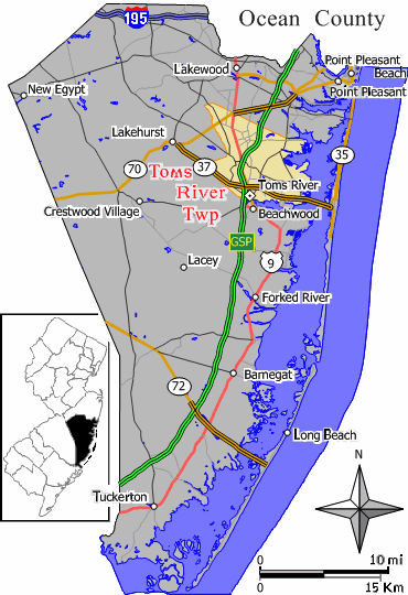 Closeup view of map of Toms River Township in Ocean County